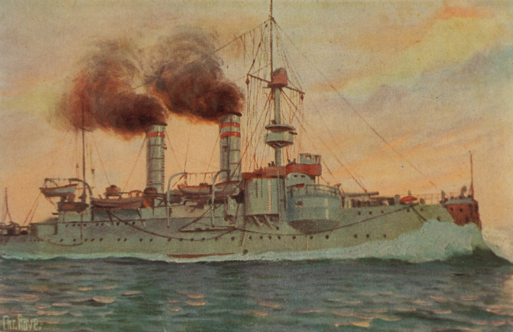 The German costal defence ship SMS Odin painted by Christopher Rave.